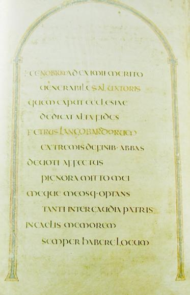 Página de dedicación